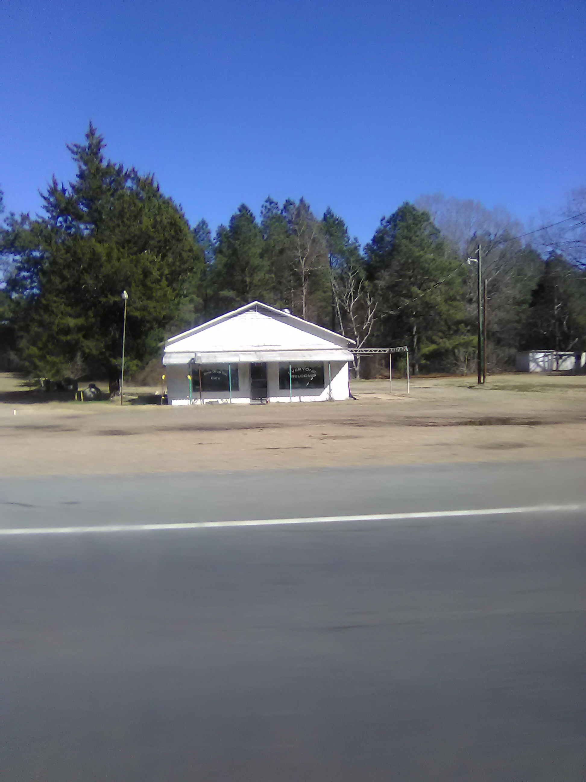 Building on Highway 71 in Fairview Alpha, Louisiana. Apparently vacant restaurant building, letters on windows read "DEW DROP INN CAFE" and "WELCOME EVERYBODY.